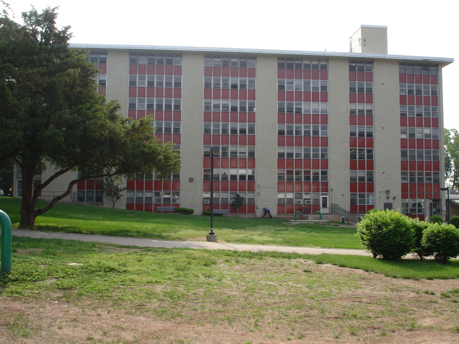 I am the author. This is original material that I photographed myself, as an alum of Montclair State University. Anyone can freely edit, distribute, and modify this image at will.